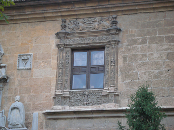 Ventana plateresca del Hospital Real de Granada. Basado en la planta del hospital de Milán de Filarete. Granada, España. The Royal Hospital of Granada was built after the plans of Filarete for the Hospital of Milan. Detail of a plateresque window.